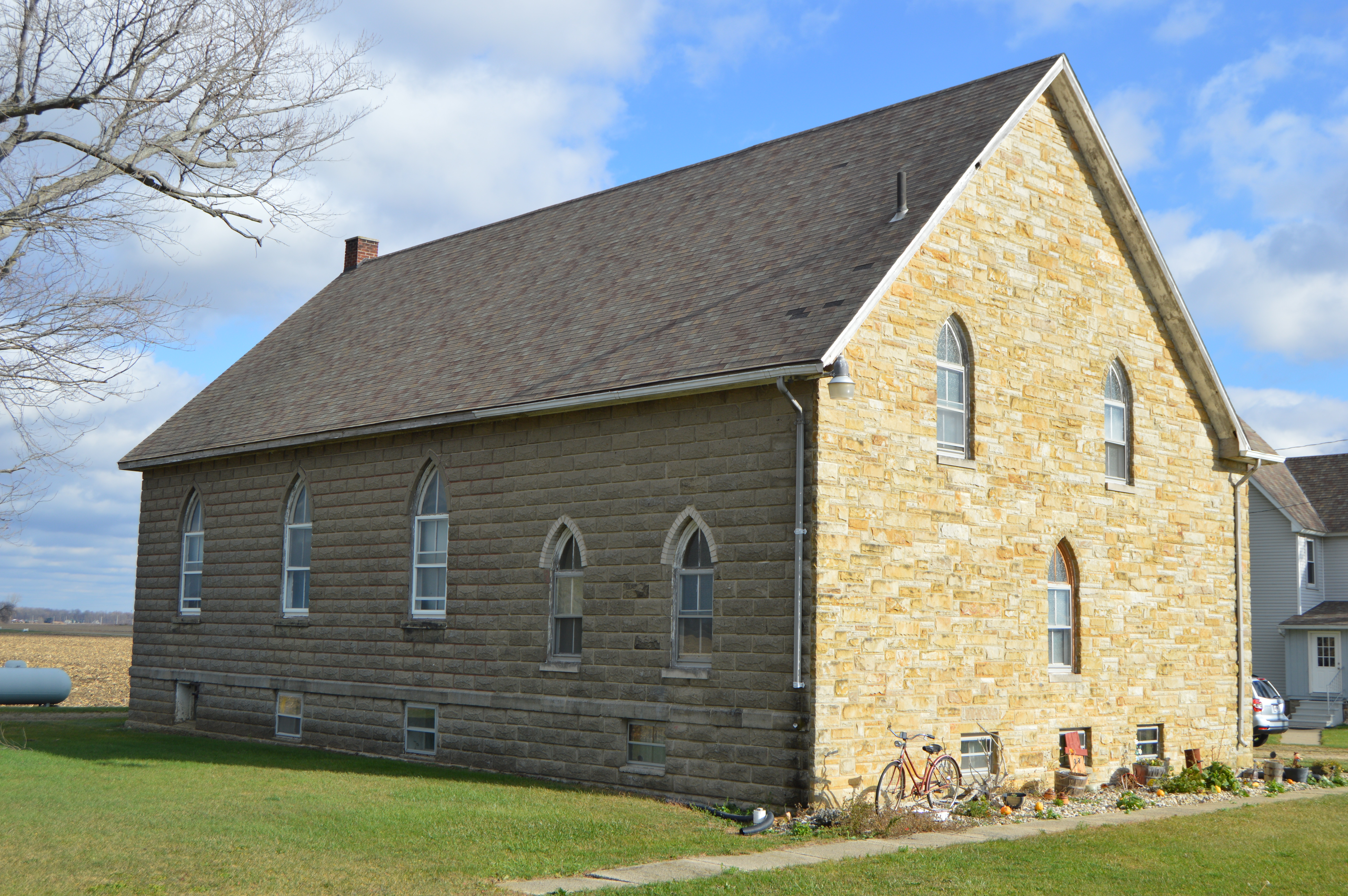 Front and western side of the former Ambrose Baptist Church, located at 20280 Road L northwest of Tedrow in Franklin Township, Fulton County, Ohio, United States.